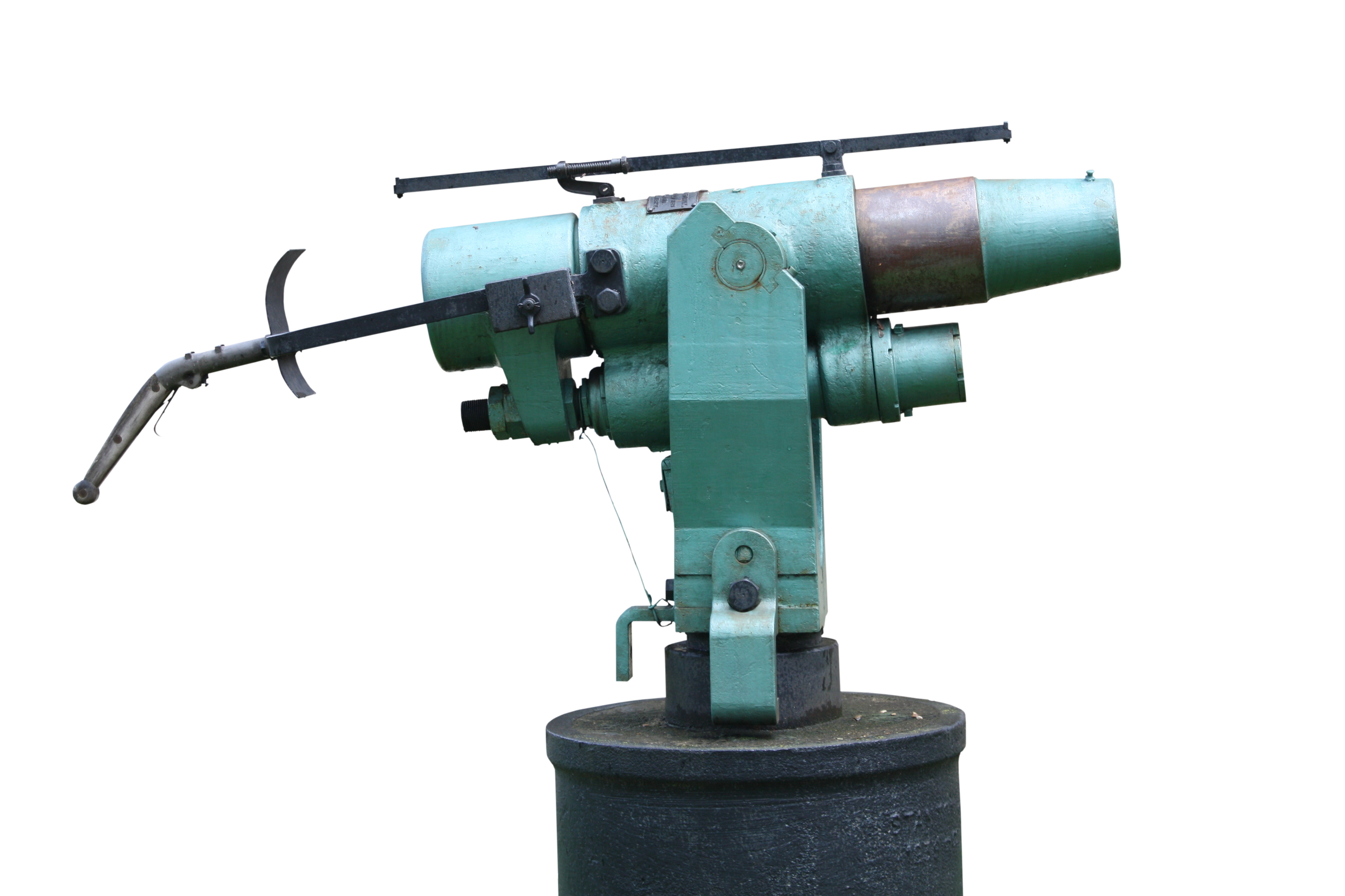 Whaling Harpoon cannon oustide the Scott Polar Research Institute